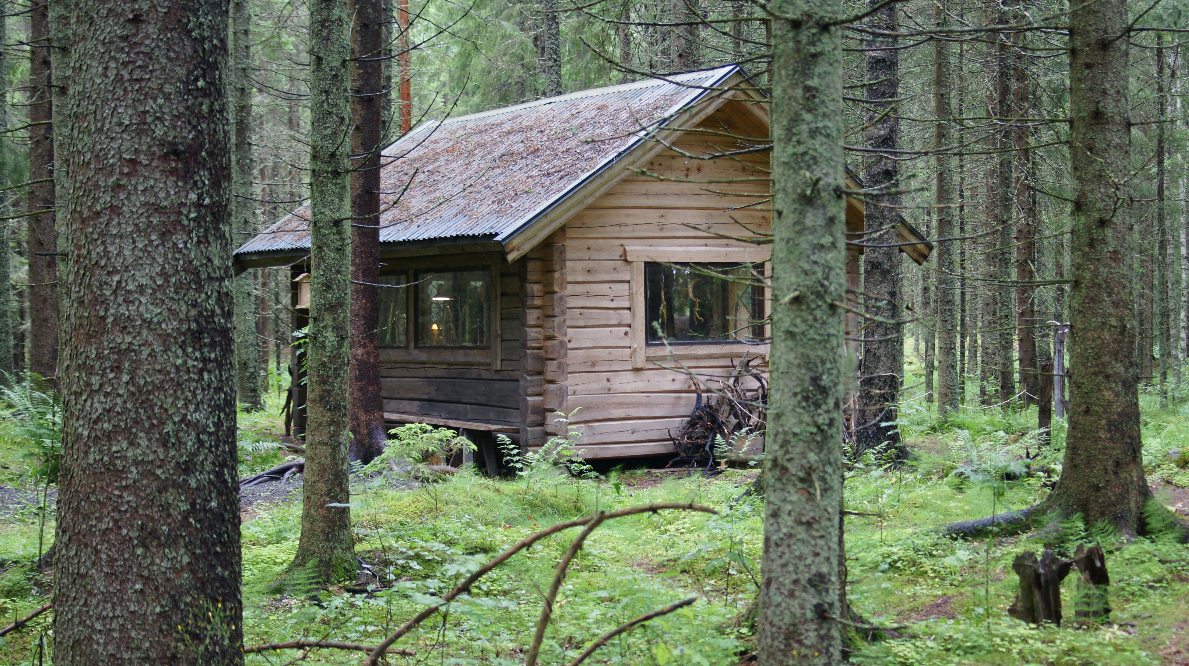 The studio of the Swedish artist Maria "Vildhjärta" Westerberg.